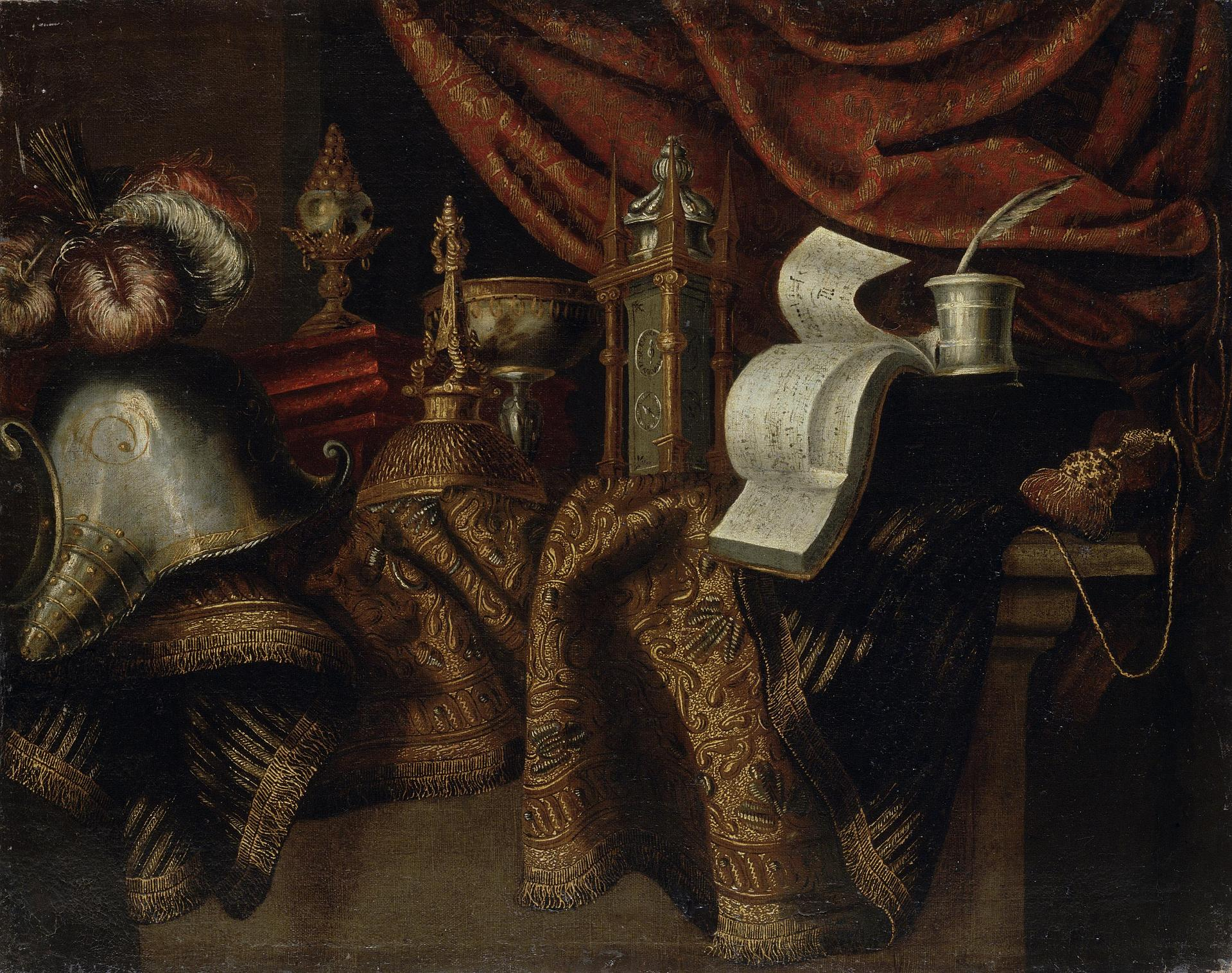 Still Life with a Helmet Hermitage Museum Native nameГосударственный ЭрмитажLocationSaint PetersburgCoordinates59° 56′ 26″ N, 30° 18′ 49″ E Established1764Web pagehermitagemuseum.orgAuthority control : Q132783 VIAF: 128956287 ISNI: 0000 0001 2285 6617 LCCN: n79100241 NLA: 35139924 GND: 2124053-X WorldCat institution QS:P195,Q132783